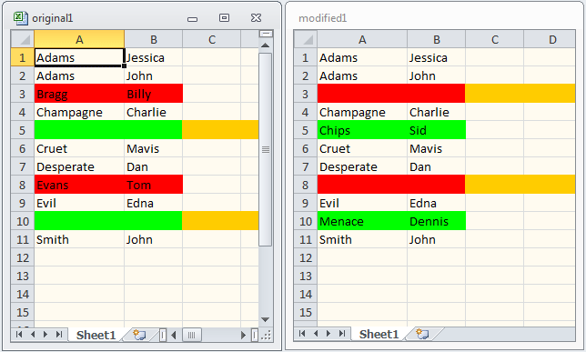 Screenshot showing the results of DiffEngineX aligning Excel workbook rows.